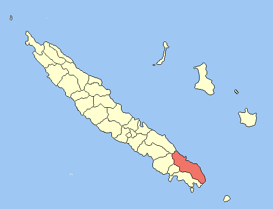 Created map myself.